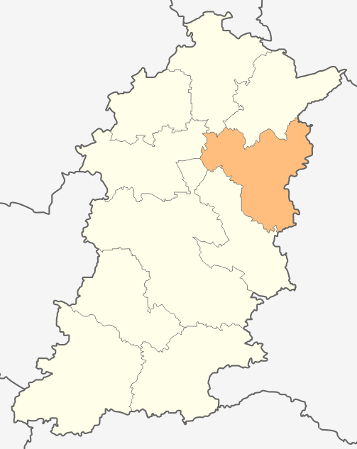 Map of Novi pazar municipality, Shumen Province